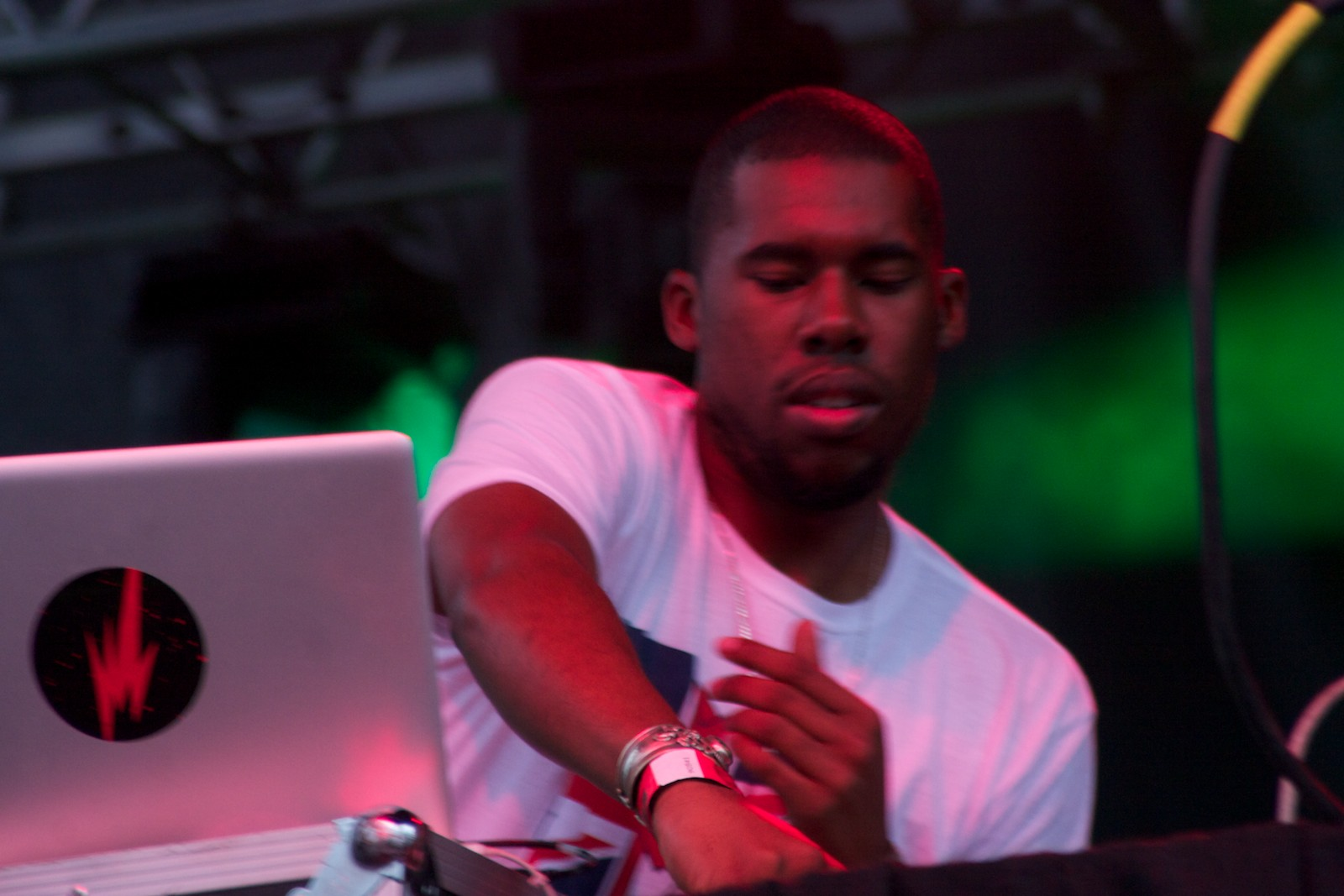 Flying Lotus performing at the North Coast Music Festival on September 5, 2010 in Chicago, Illinois.